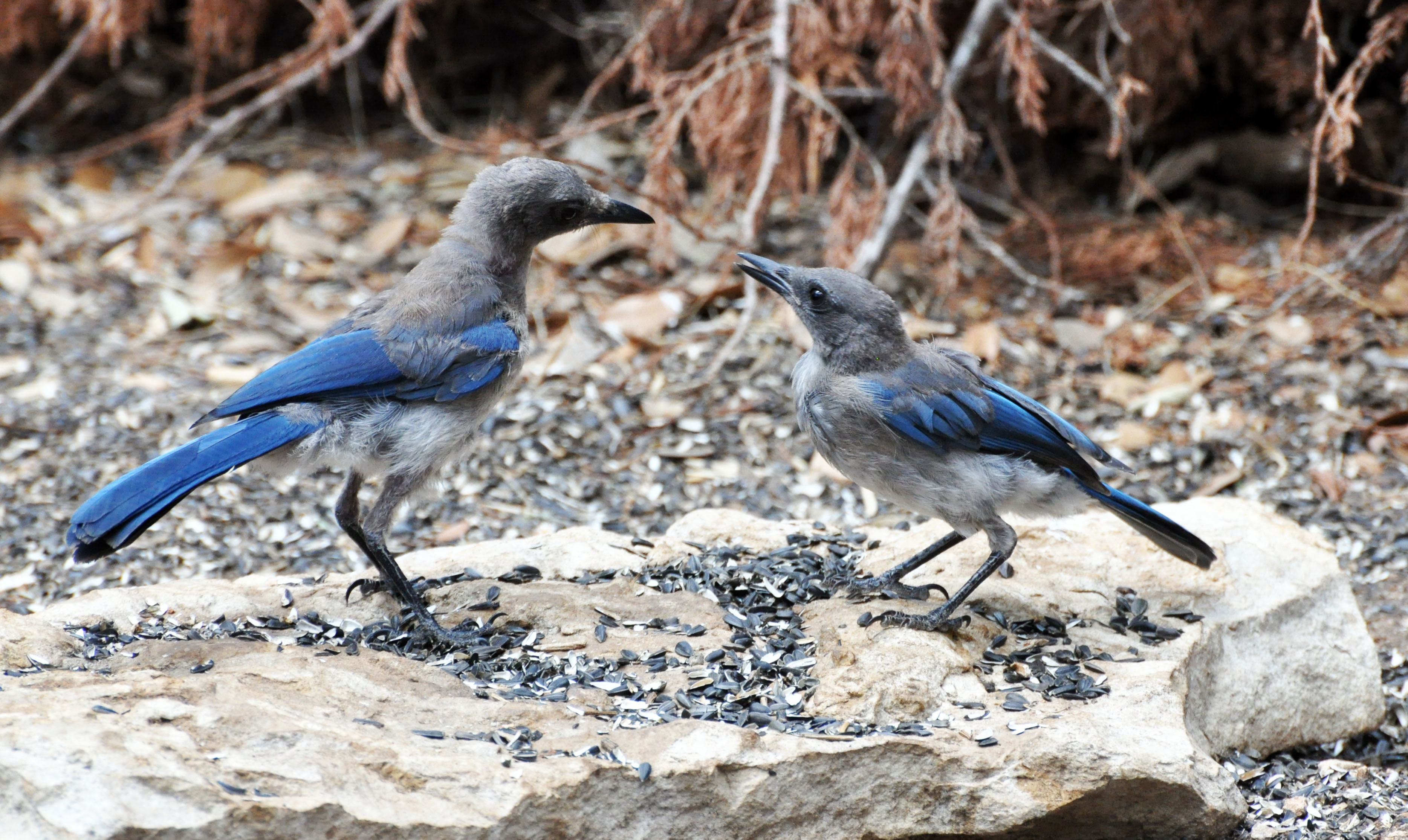 This image or file is a work of a United States Department of Agriculture employee, taken or made as part of that person's official duties. As a work of the U.S. federal government, the image is in the public domain.